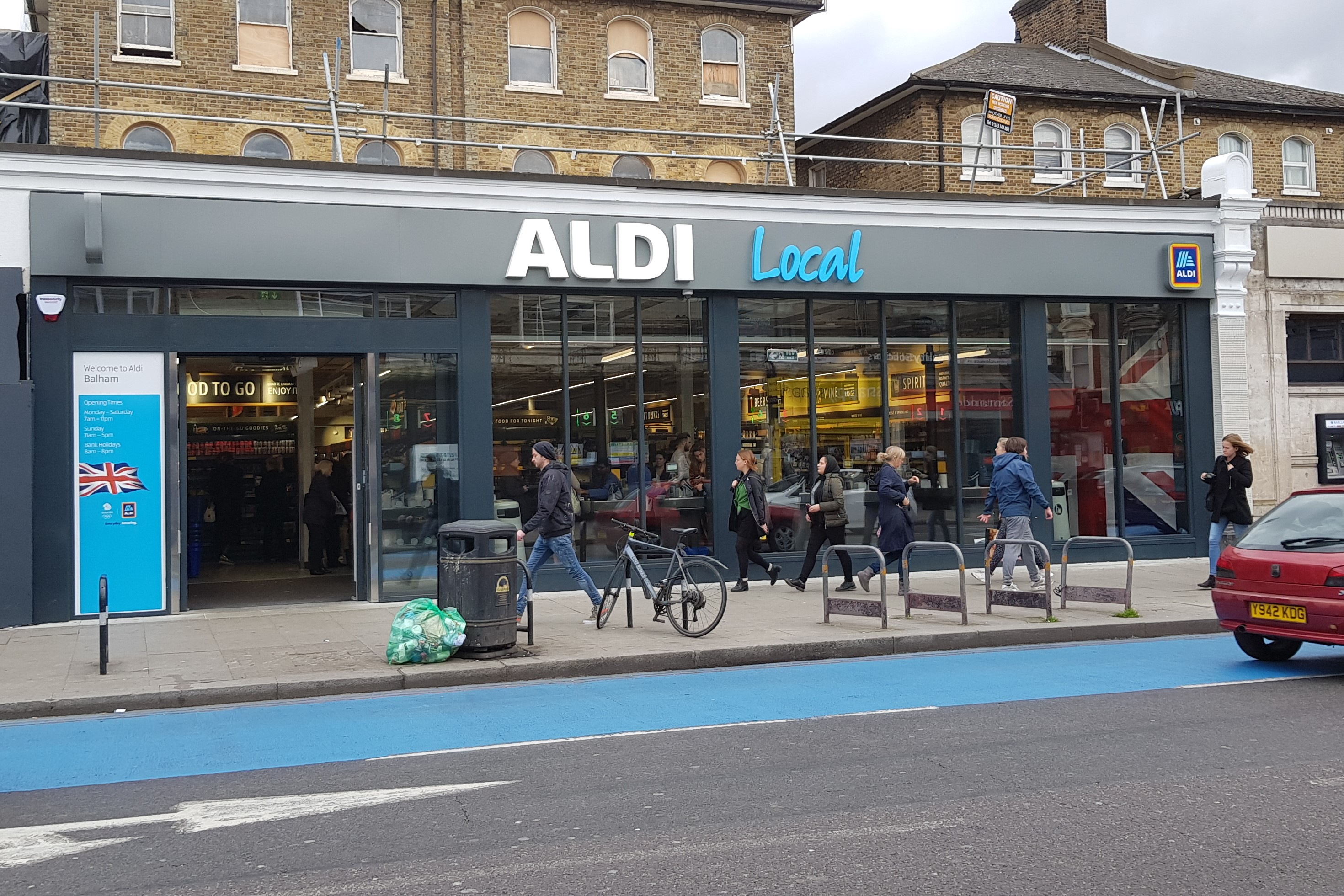 A photo of a branch of the supermarket Aldi Local in Balham, south London. This branch is the first Aldi Local, a variation of the Aldi discount supermarket that Aldi Süd GmbH has created.